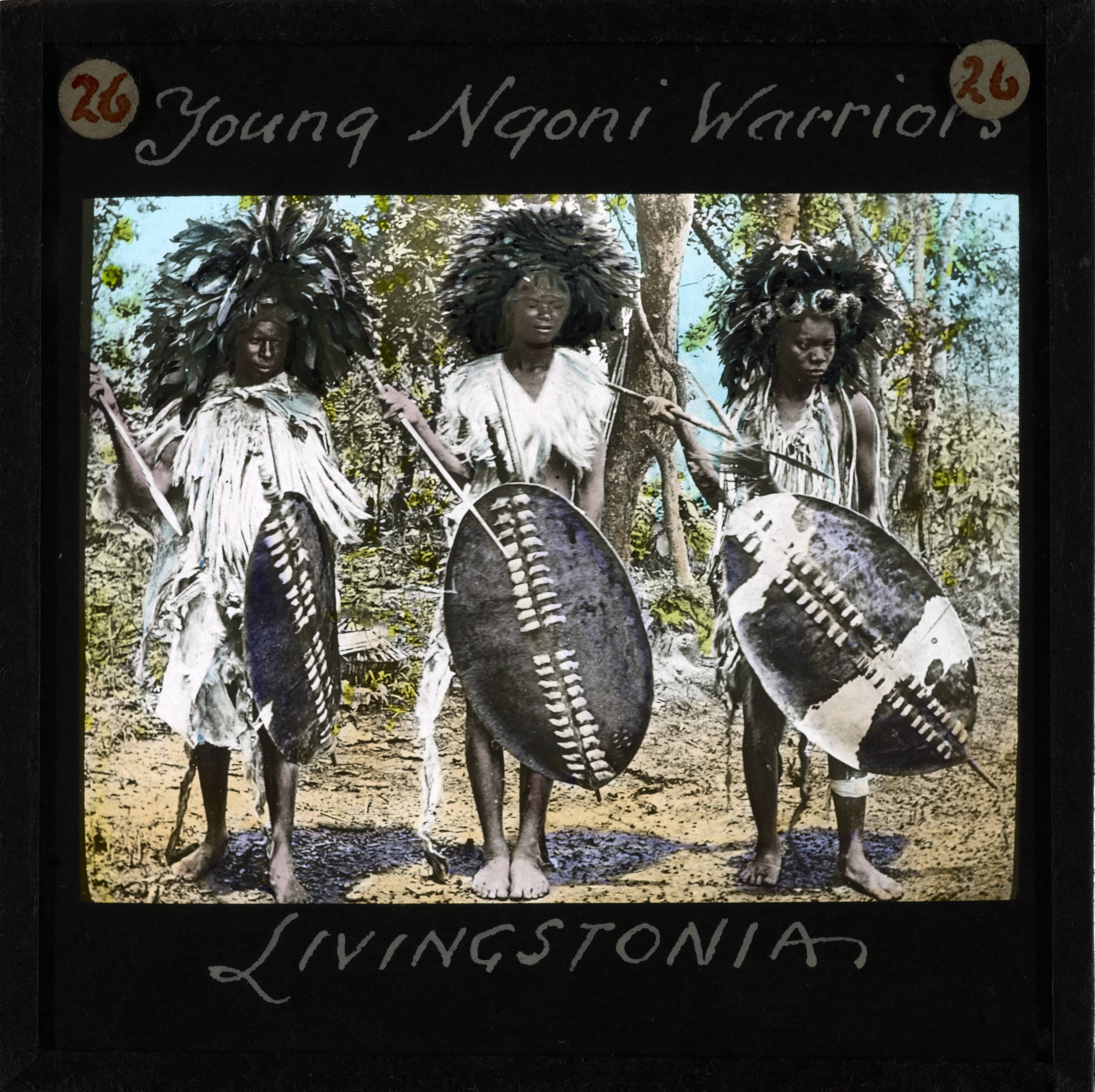 "Young Ngoni Warriors, Livingstonia" Malawi, ca.1895 Photograph of three young Ngoni warriors, dressed in traditional tribal dress, including head dress. The young men are all carrying a spear and shield. They are standing in a clearing with trees in the background.; The Ngoni people are an ethnic group living in Malawi, Mozambique, Tanzania and Zambia. Their origins can be traced to the Zulu people of kwaZulu-Natal in South Africa. Photographer: Unknown Filename: imp-cswc-GB-237-CSWC47-LS3-1-026.tif Coverage date: circa 1895 Part of collection: International Mission Photography Archive, ca.1860-ca.1960 Type: images Part of subcollection: Photographs from the Centre for the Study of World Christianity, University of Edinburgh, U.K., ca.1900-ca.1940s Repository name: Centre for the Study of World Christianity Archival file: impaunpub_Volume7/1412.url Repository address: The University of Edinburgh School of Divinity, New College, Mound Place, Edinburgh EH1 2LX, United Kingdom Geographic subject (country): Malawi Format (aacr2): 1 lantern slide : 8 x 8 cm. Geographic subject (continent): Africa Rights: Contact the repository for details. Part of series: Elmslie of the Wild Ngoni LS3/1 Repository Subject (lcsh Keyword): Tribes; Ethnic costume Date created: circa 1895 Publisher (of the digital version): University of Southern California. Libraries Subject (aat genre): group portraits Format (aat): lantern slides Legacy record ID: impa-m68404 Access conditions: File: GB 237 CSWC47/LS3/1/26